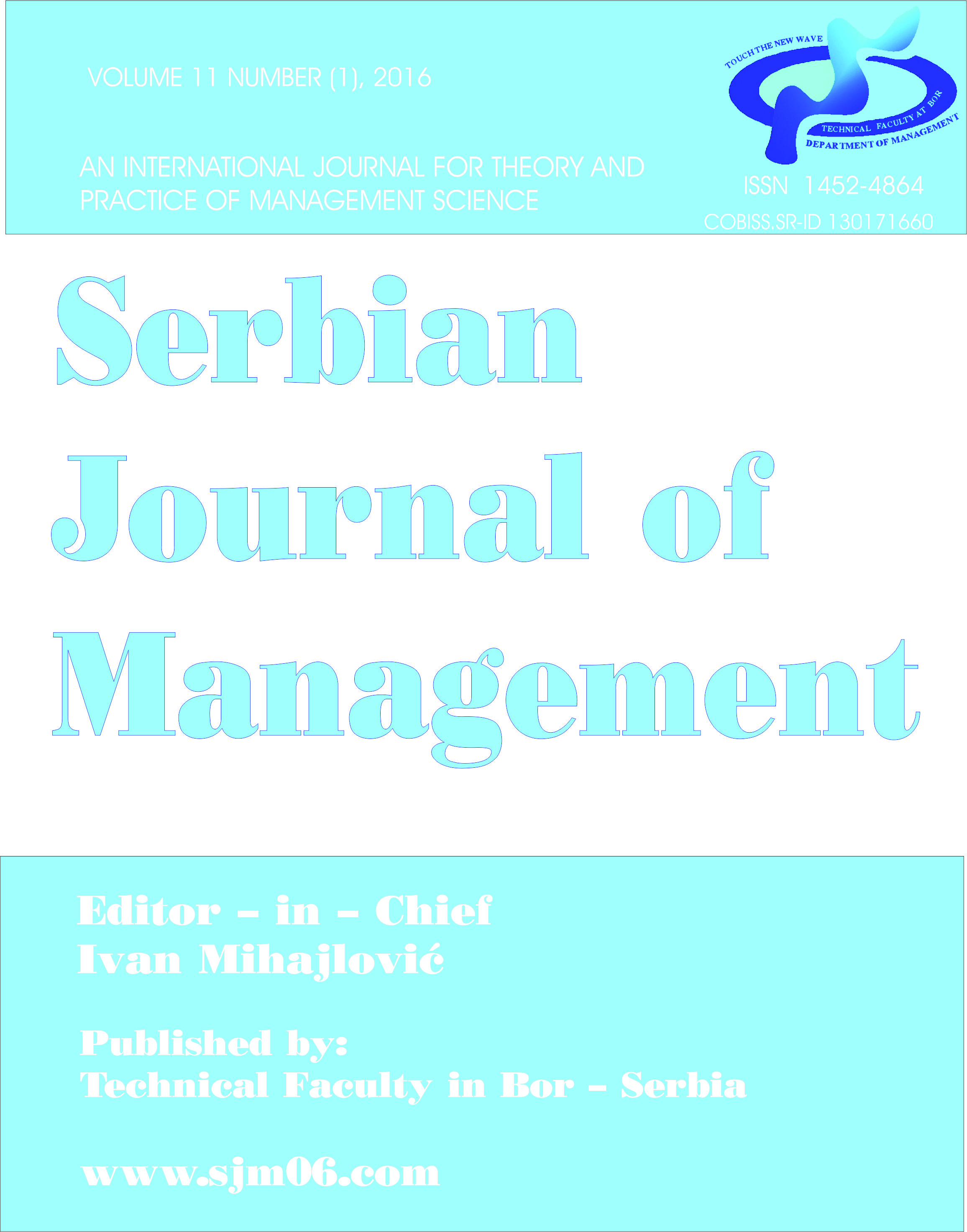 Cover page, 2016.